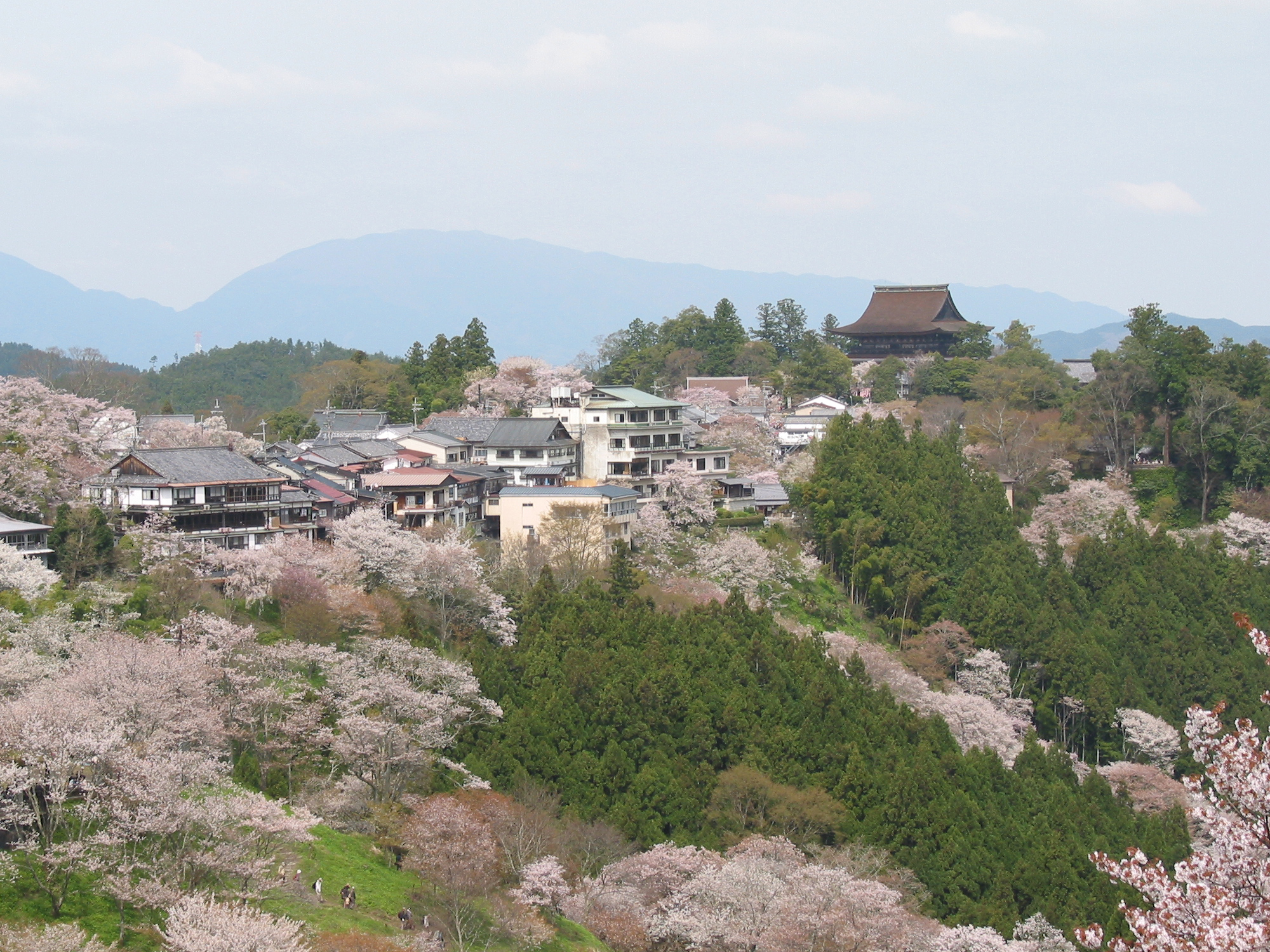 Cherry blossoms of Yoshinoyama (Mt.Yoshino is one of the most famous sightseeing spots for cherry blossoms in Japan.) Place:Yoshinoyama (Mt.Yoshino is one of the most famous sightseeing spots for cherry blossoms) Yoshino Yoshino District, Nara Pref., Japan.